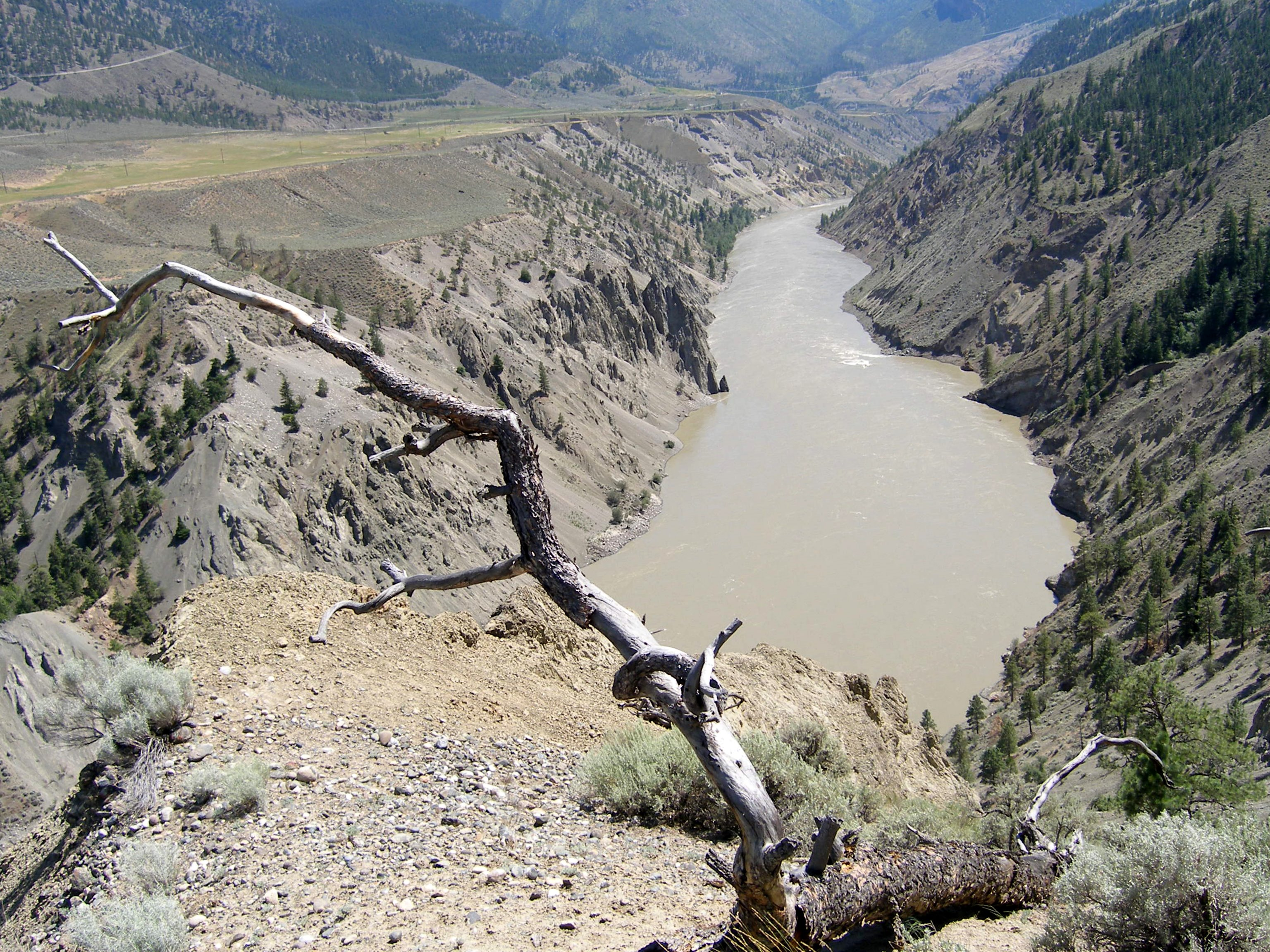 Fraser River, Canada, near the "West Fraser Historic Trail" (north of Lillooet).